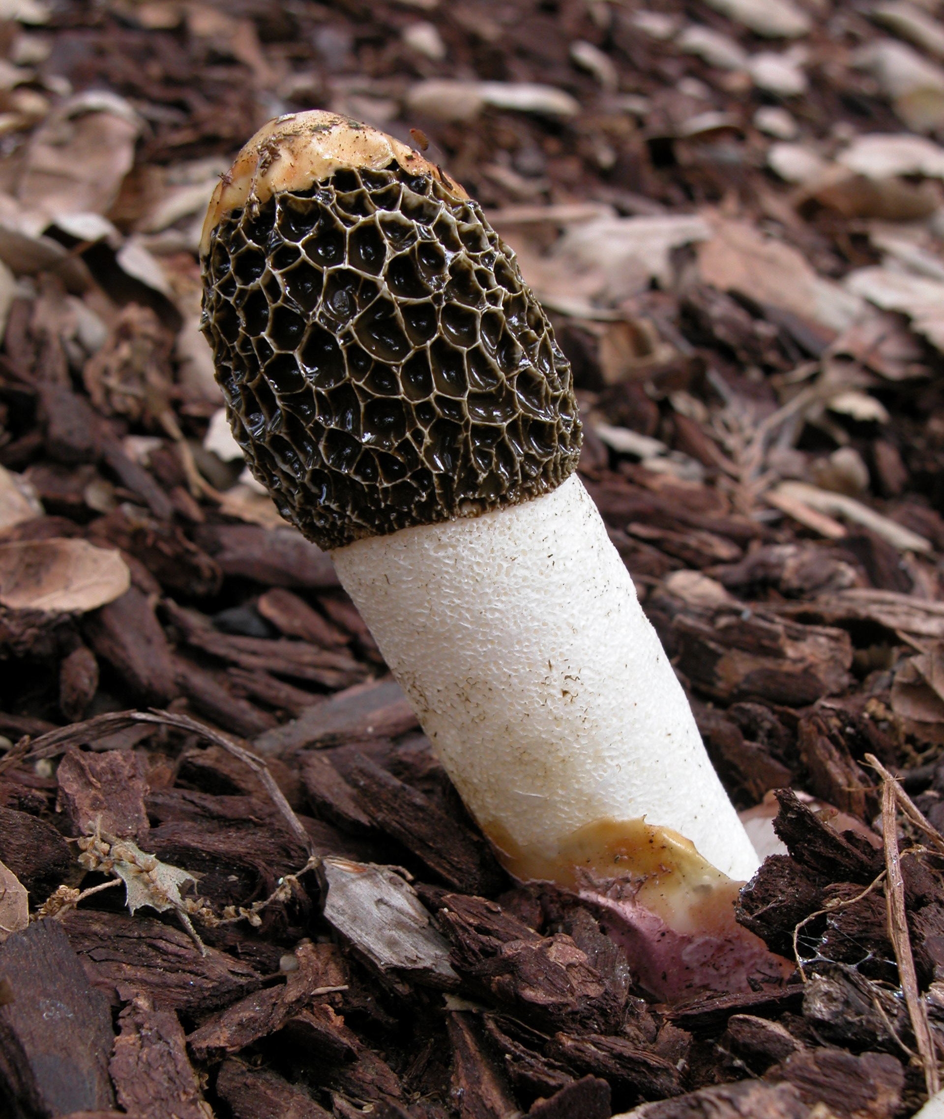 The stinkhorn fungus Phallus hadriani vent in Descanso Gardens, La Crescenta, Los Angeles County, California, United States.